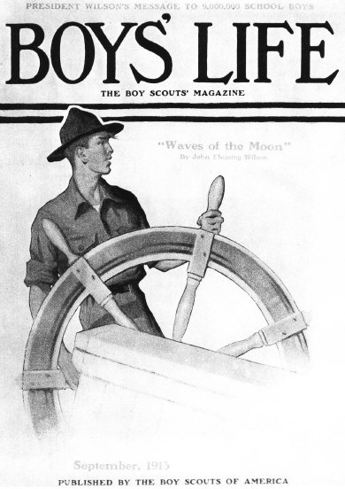 Scout at Ship's Wheel by Norman Rockwell (1894–1978), his first published magazine cover illustration, from the September 1913 cover of Boys' Life magazine for the Boy Scouts of America